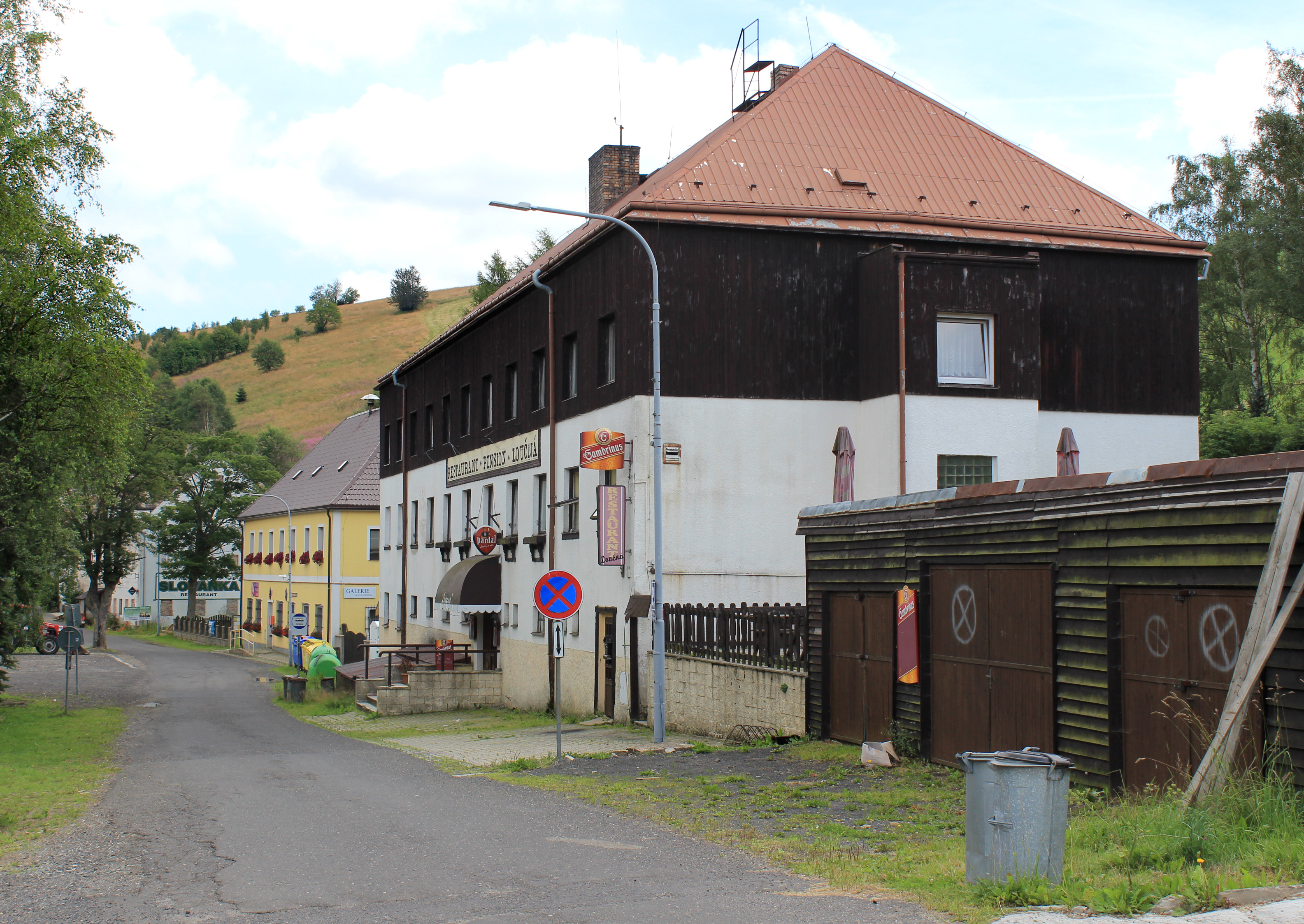 Restaurant in Loučná pod Klínovcem, Czech Republic.